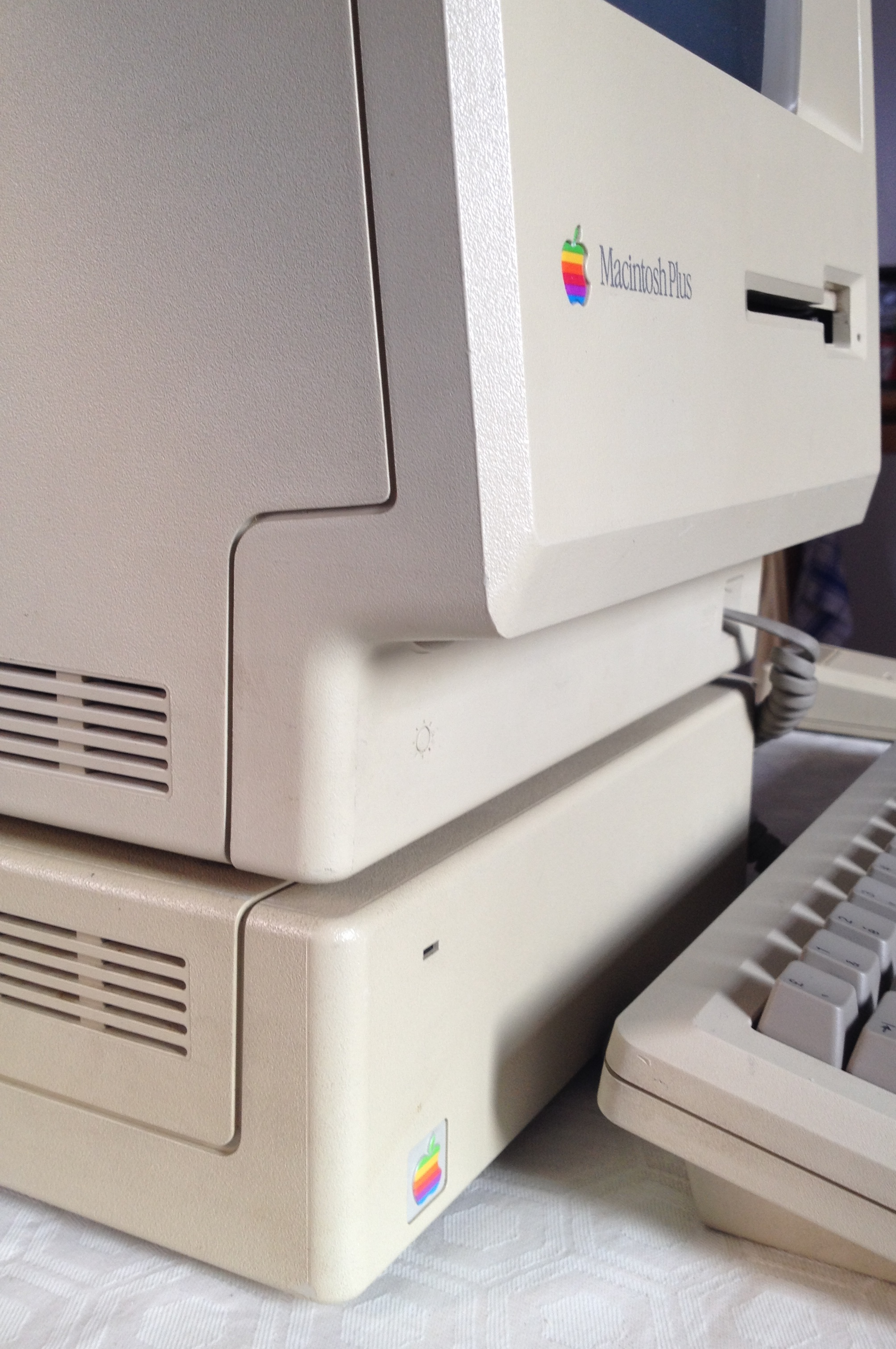 A Macintosh Plus under a Hard Disk 20